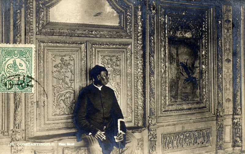 Photo post-card of the Chief Eunuch of the Ottoman Sultan Abdul Hamid II, photographed at the Imperial Palace. The Qizlar Agha, was one of the most powerful and sometimes the richest men in the Ottoman Empire until 1908. He supervised the Harem of the Sultan, and the princes, the financial affairs of the palace, the mosques of the capital and the mosques of the holy cities of Mecca and Medina. He served as the Chamberlain to the Sultan thus controlling access to him.